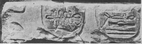 Limestone fragment with incomplete cartouches of Sekhemre-shedtawy Sobekemsaf, originally painted red and yellow. left cartouche: [Sobekem]saf right cartouche: [Sekhemre-]shedtawy 17th dynasty, from Abydos. British Museum, registr. no. 38089.